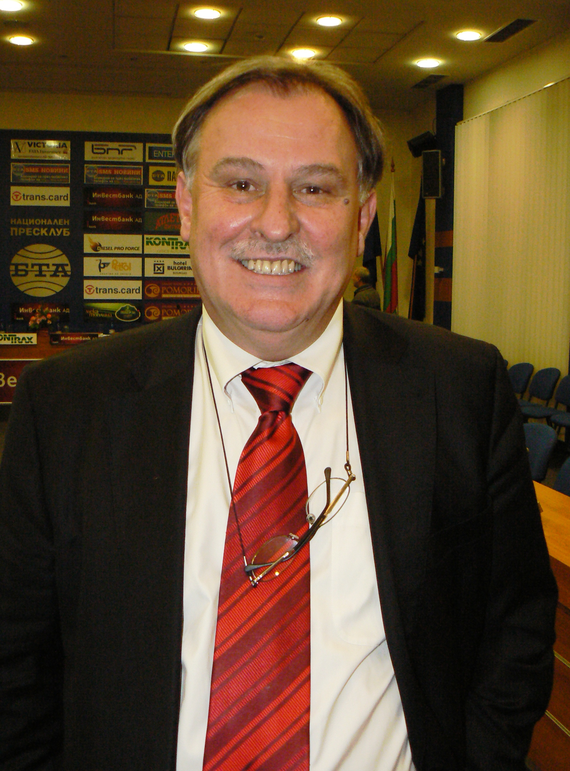 General director of the Bulgarian News Agency, Maxim Minchev, at a translators' meeting